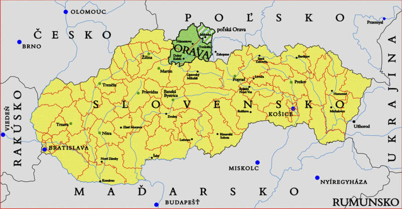 Location of Orava Region